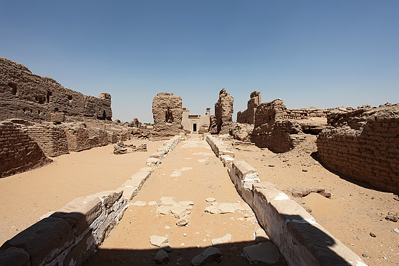 Temple of Qasr ez-Zaiyan, outer court surrounded by mub-brick walls, el-Kharga depression, Libyan desert, Egypt